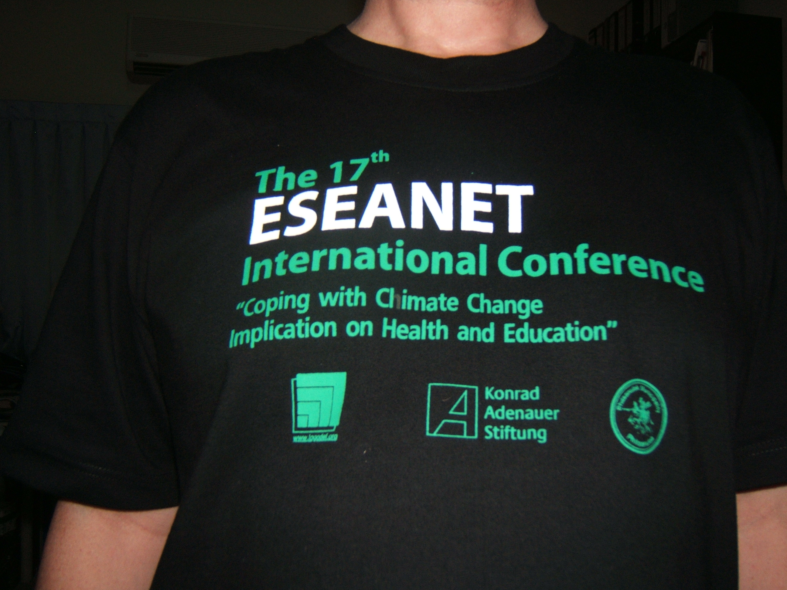 T-Shirt of the 17th ESEANET Conference on Climate Change and Implications on Health and Education in Phitsanulok, Thailand